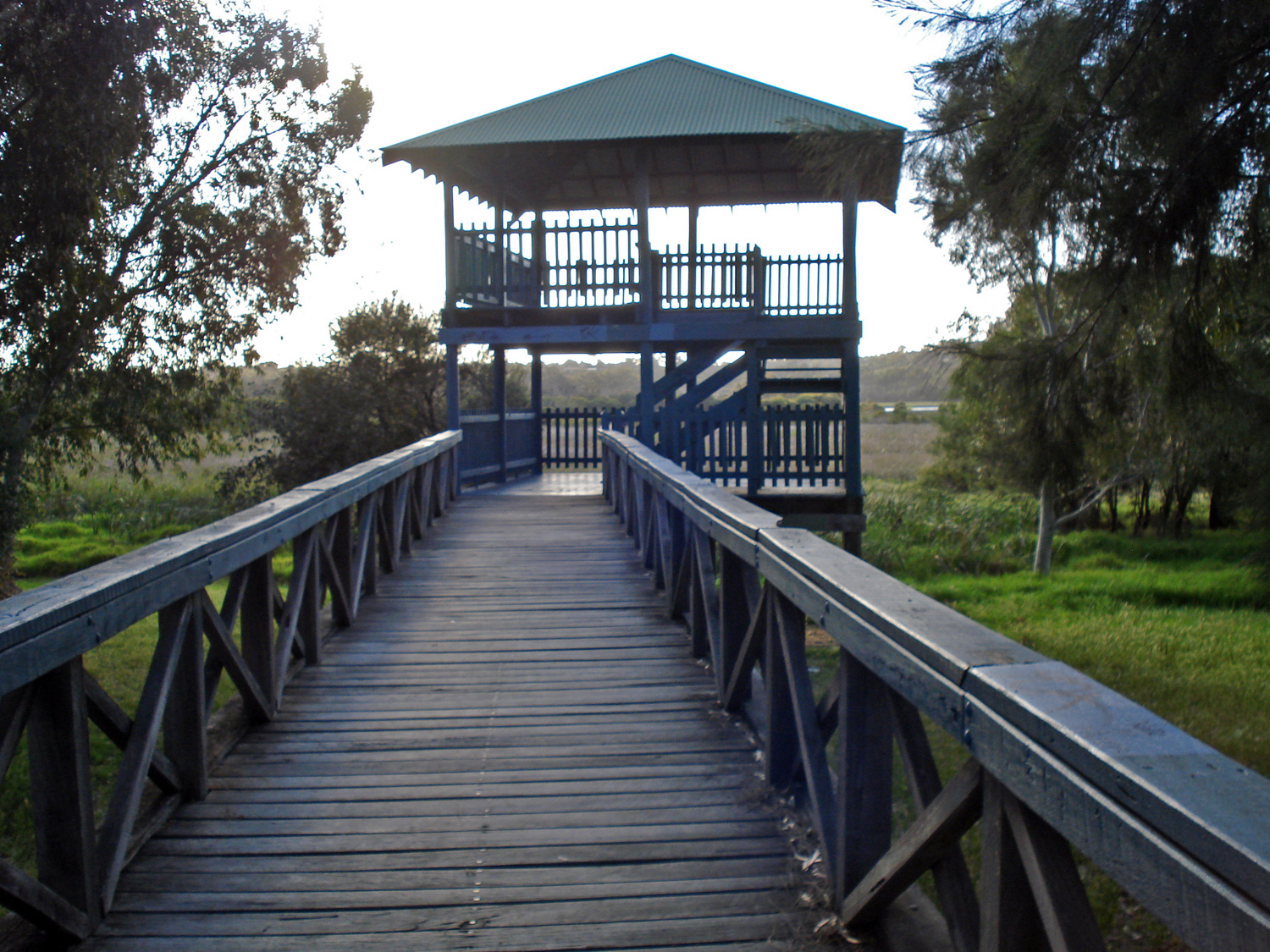 Lookout at Studmaster Park, in Yellagonga Regional Park, Perth, Western Australia